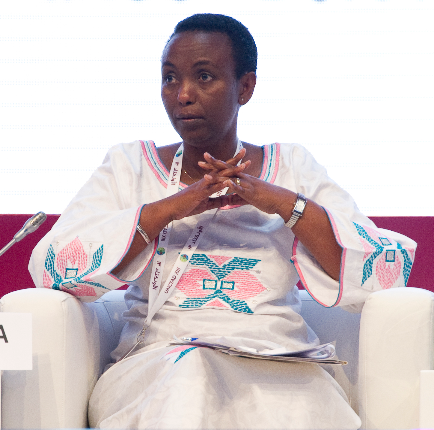 UNCTAD XIII High Level Event on Women in Development, Session II: Honourable Aloysia Inyumba, Minister of Gender Affairs of the Republic of Rwanda